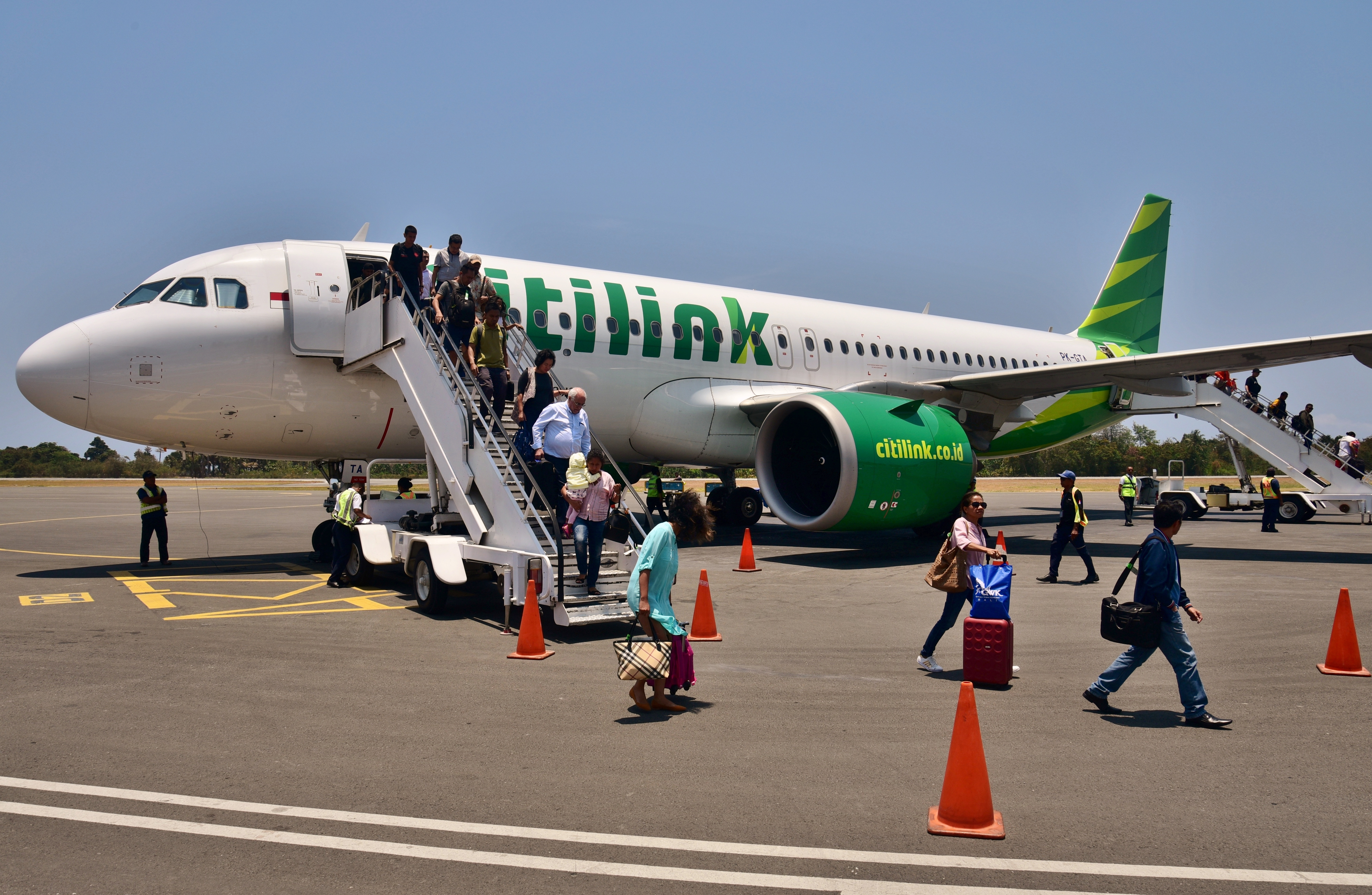 Citilink Airbus A320neo PK-GTA at Presidente Nicolau Lobato International Airport, Dili, East Timor